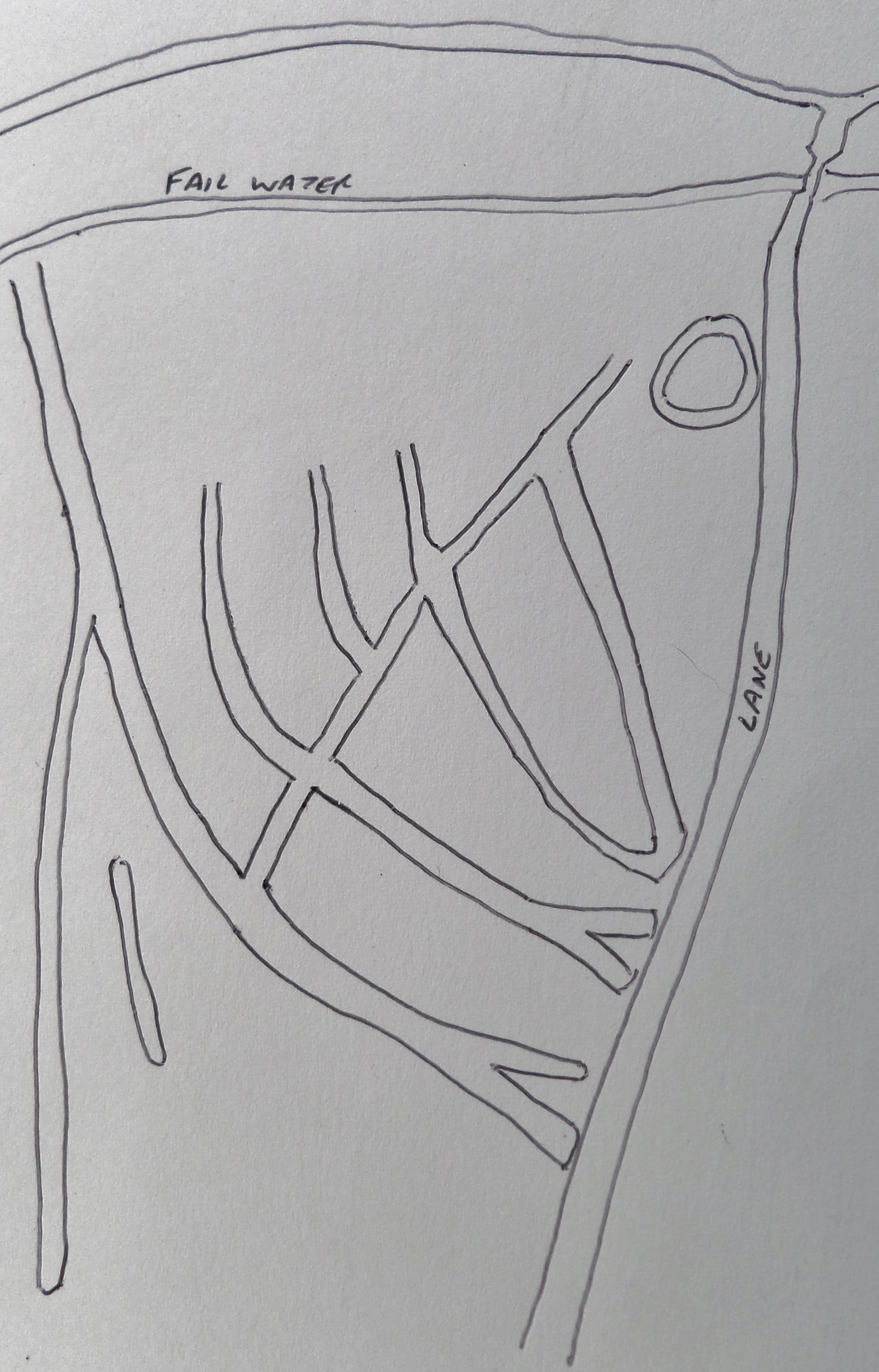 The 'Roman Trenches' on Parkmoor, Coilsfield, Tarbolton, East Ayrshire, Scotland.